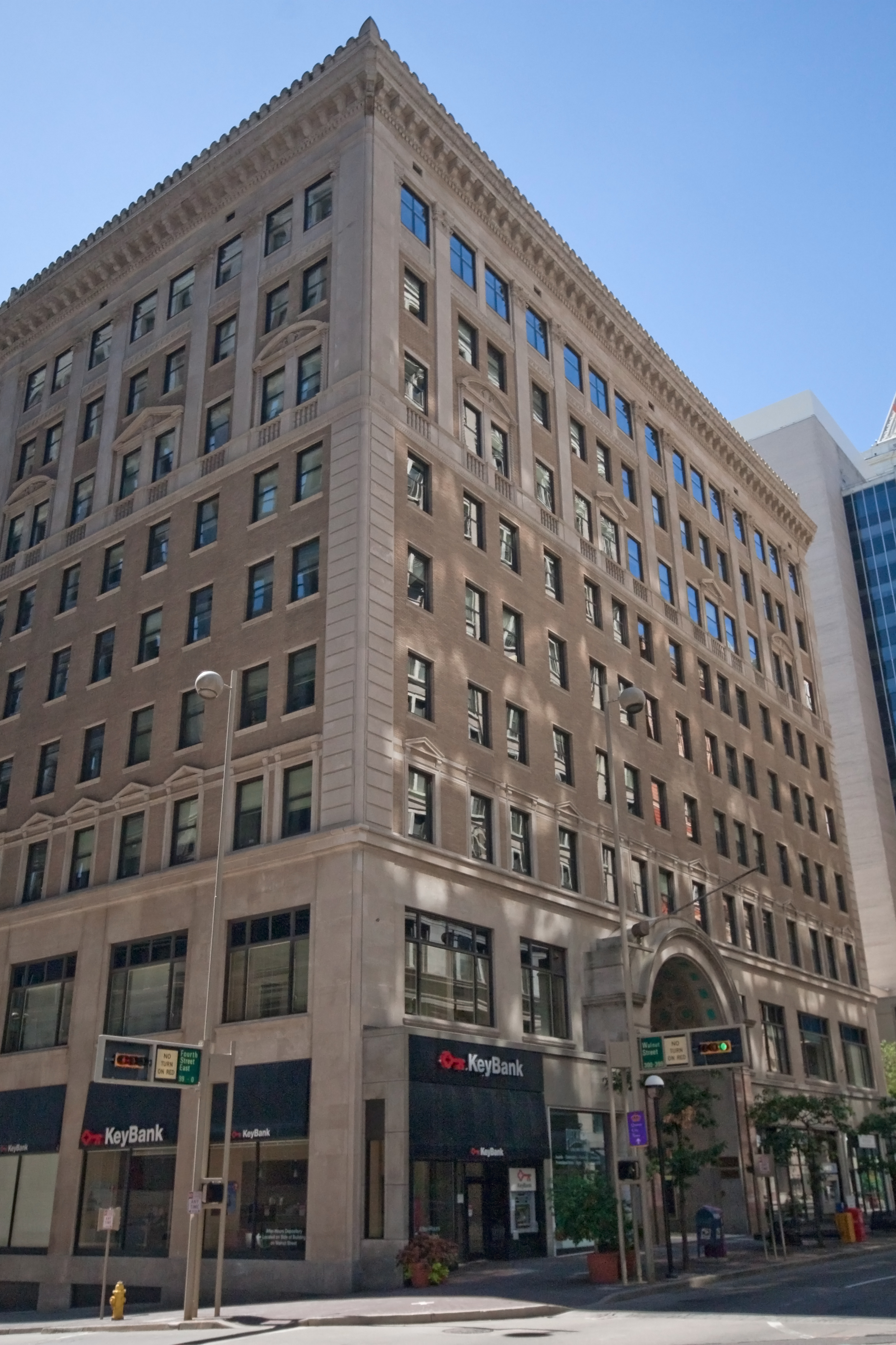 Dixie Terminal Exterior. Photo by Greg Hume